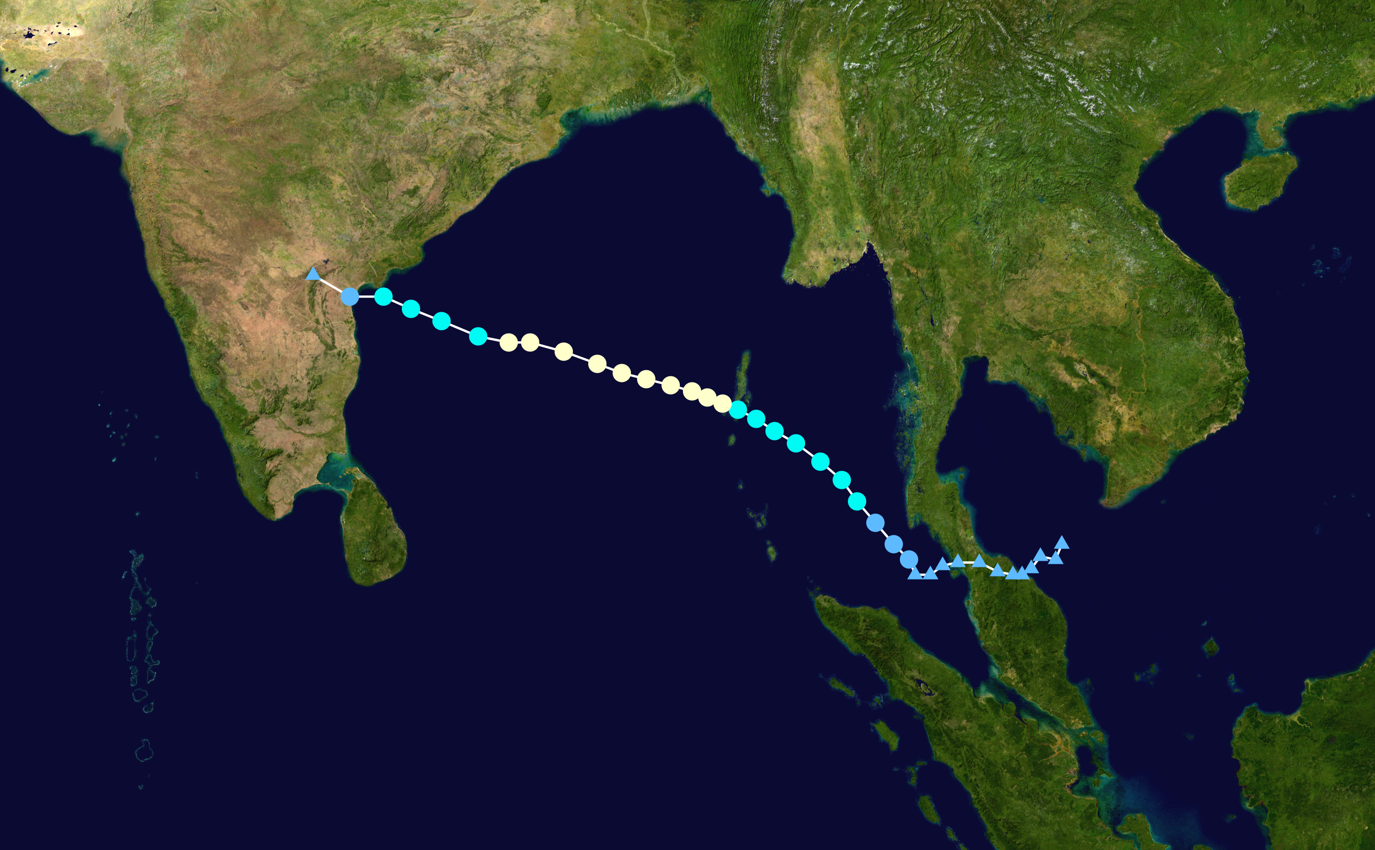 Track map of Cyclone Lehar of the 2013 North Indian Ocean cyclone season. The points show the location of the storm at 6-hour intervals. The colour represents the storm's maximum sustained wind speeds as classified in the Saffir–Simpson scale (see below), and the shape of the data points represent the nature of the storm, according to the legend below. Saffir–Simpson scale Tropical depression≤38 mph≤62 km/h Category 3111–129 mph178–208 km/h Tropical storm39–73 mph63–118 km/h Category 4130–156 mph209–251 km/h Category 174–95 mph119–153 km/h Category 5≥157 mph≥252 km/h Category 296–110 mph154–177 km/h Unknown Storm type Tropical cyclone Subtropical cyclone Extratropical cyclone / Remnant low / Tropical disturbance / Monsoon depression